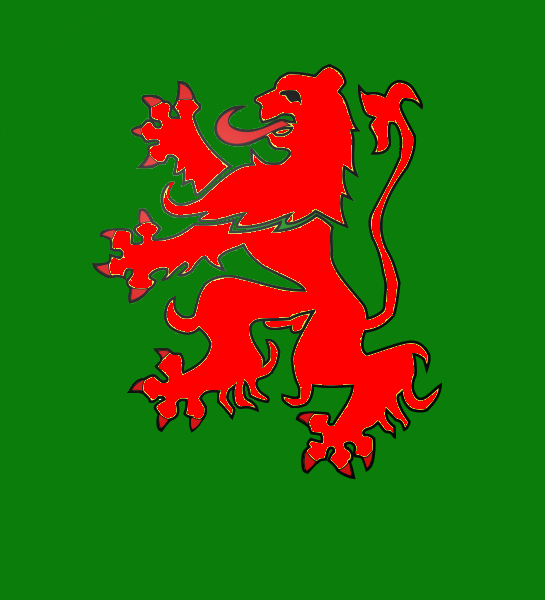 Flag of Narnia. In Chapter 12 of the book The Horse and His Boy, the "great banner of Narnia" is described as a "red lion on a green ground." Chapter 4 of The Voyage of the Dawn Treader and Chapter 16 of The Silver Chair (both of which take place over 1,000 years later) refer to a "golden lion" on the flag. Chapter 12 of The Lion the Witch and the Wardrobe refers to a "red rampant lion," but the Pauline Baynes illustrations to that chapter and to Chapter 4 of Dawn Treader and Chapter 12 of The Horse and His Boy ( show the lion courant on a long triangular pennant.